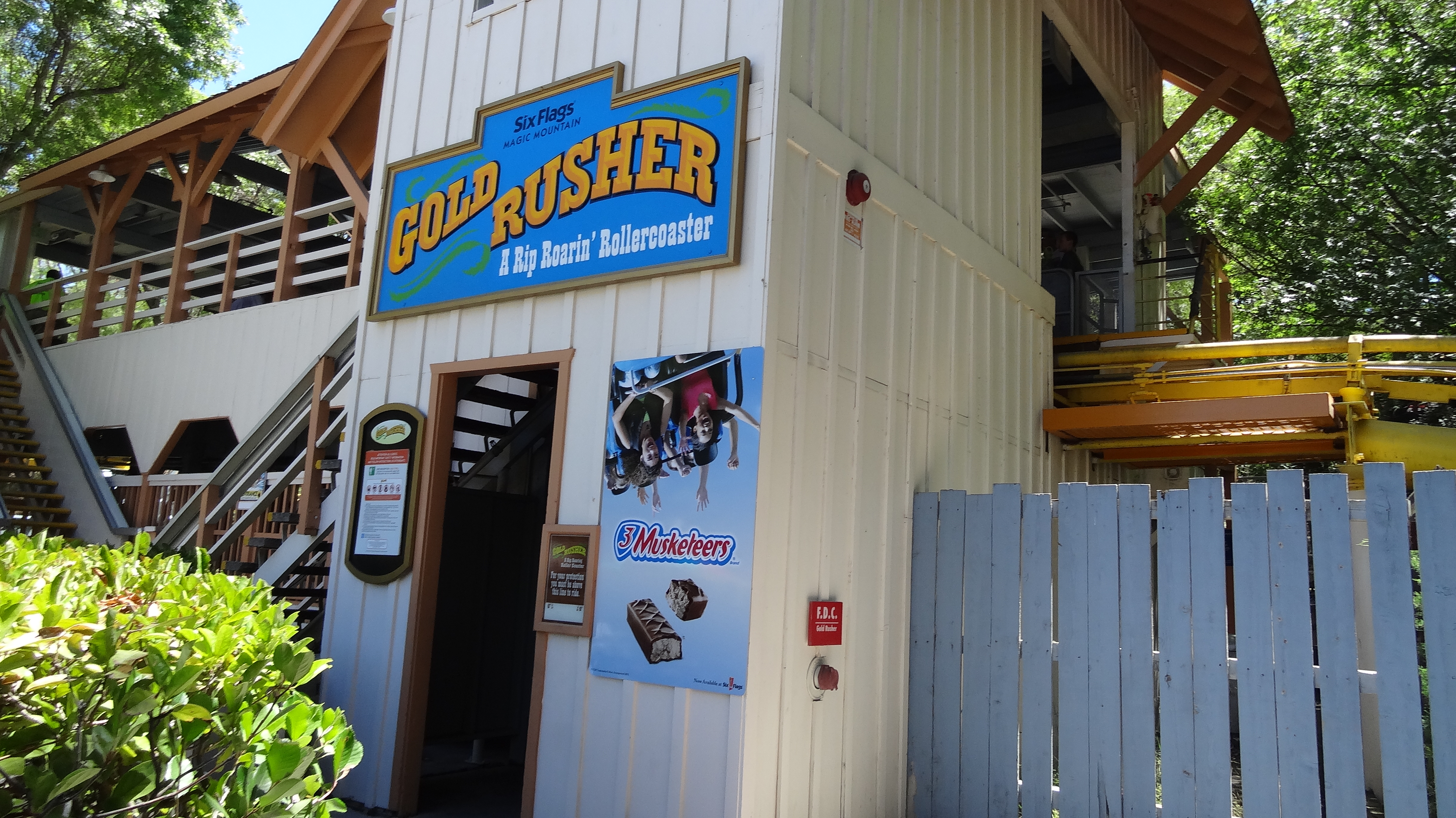 Gold Rusher's entrance. Gold Rusher was the park's first roller coaster. The ride is labeled by Six Flags Magic Mountain as a family friendly ride.